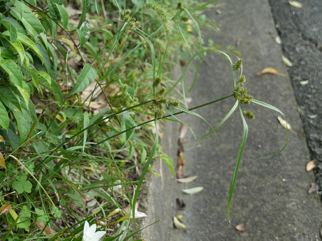 Cyperus cyperoides(Cyperaceae) Japanese name:Inukugu：イヌクグ Date;2008,10.25;Tanabe City, Wakayama prefecture, Japan Author;Keisotyo